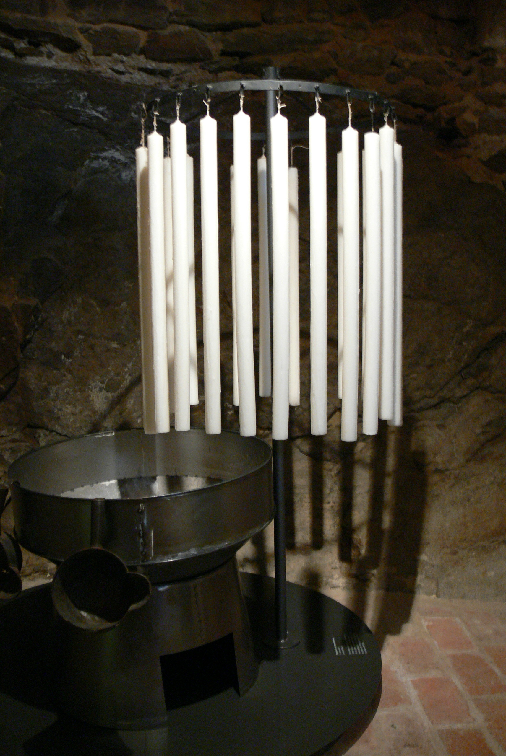 Oberhausmuseum ( Passau ). Maschine for candle production ( 19th century ).